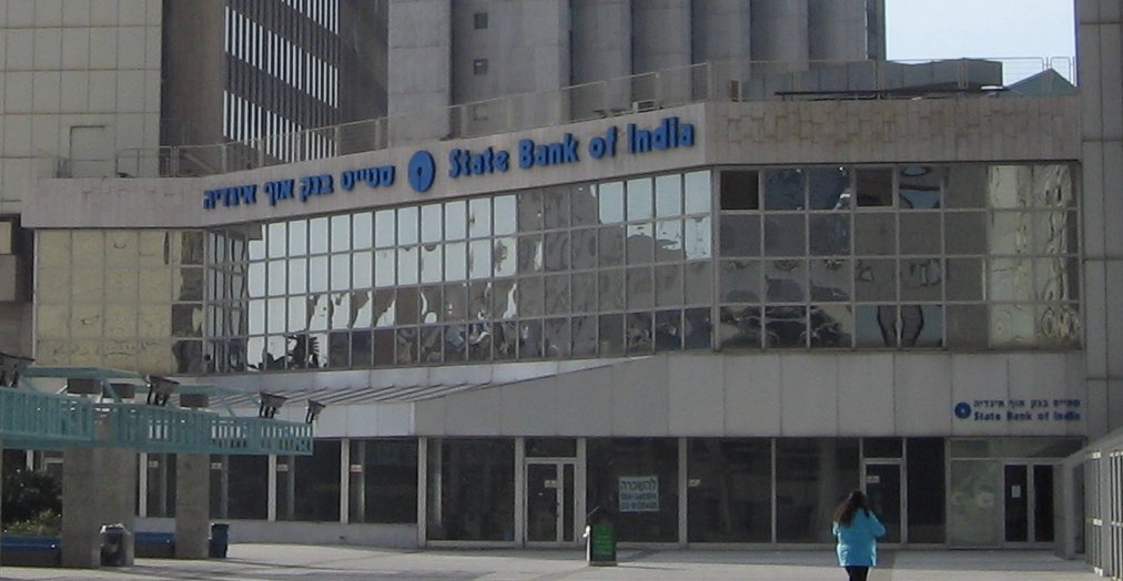 The Israeli branch of the "State Bank of India" located in Ramat Gan